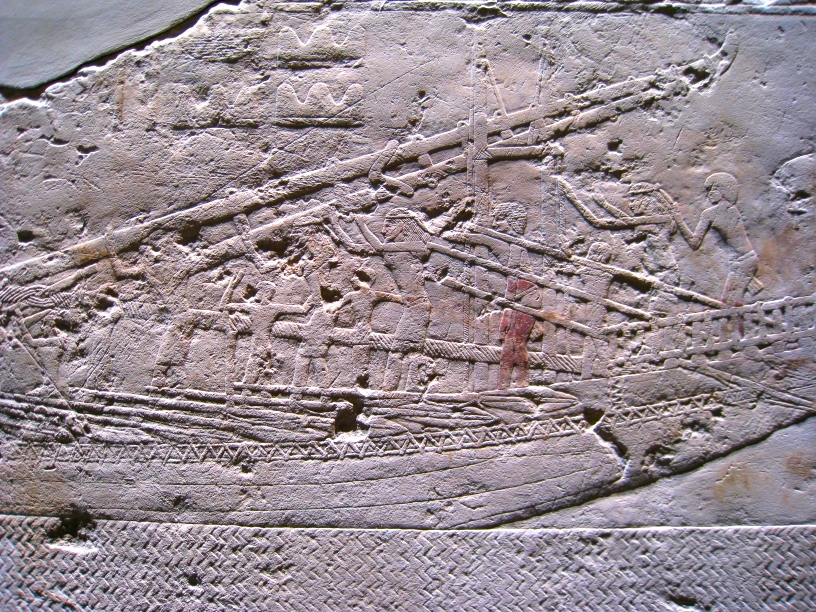 Reliefs of the funerary temple of Sahure. Return of a naval expedition from Syria - 5th dynasty of Egypt - Egyptian museum of Berlin